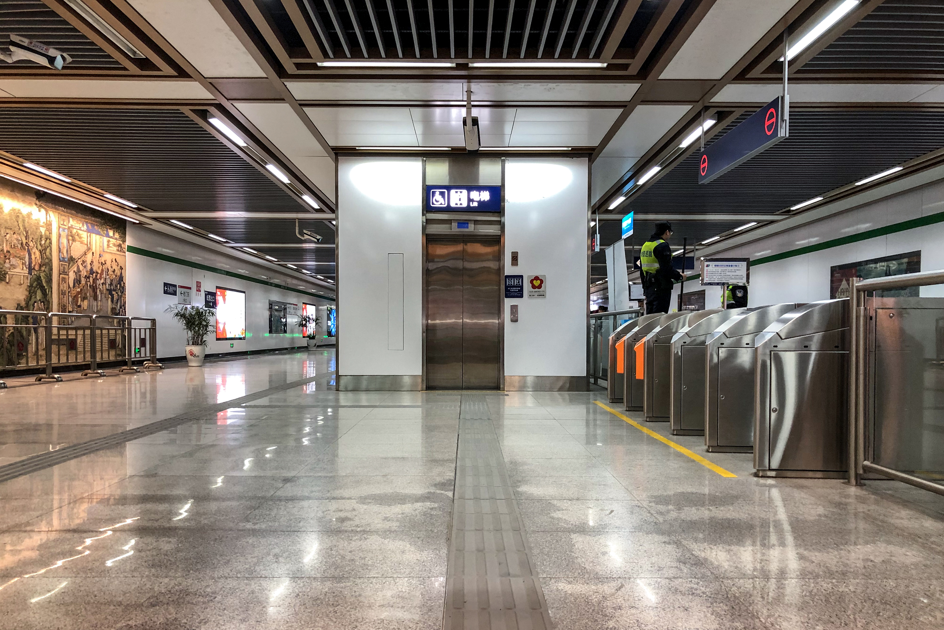 Another red chamber-themed station.